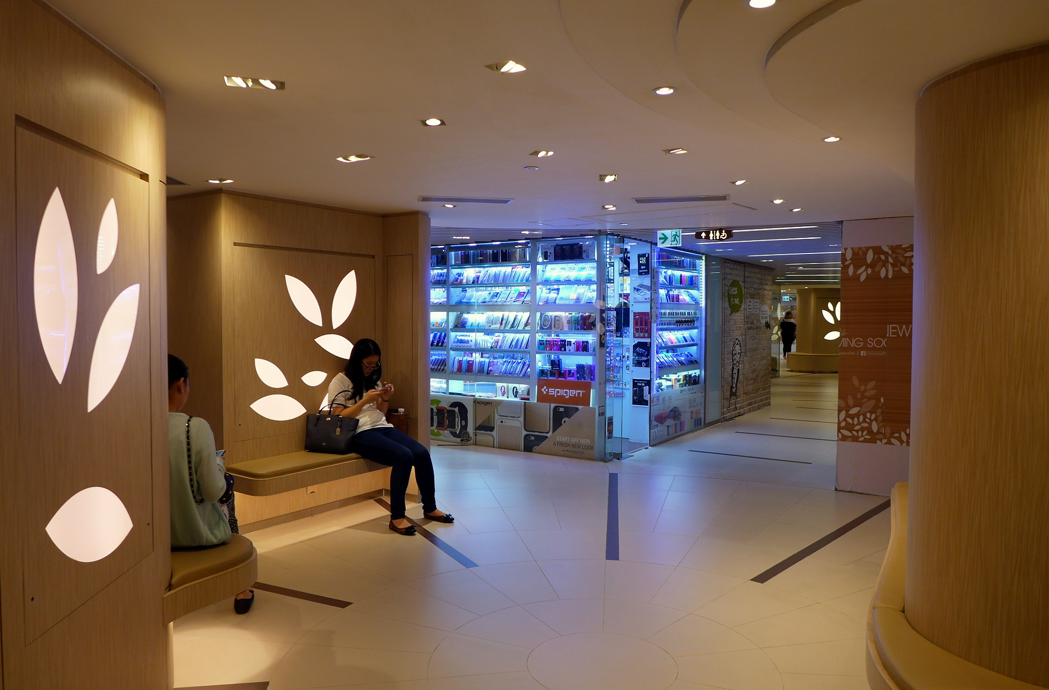 Causeway Place Level 1